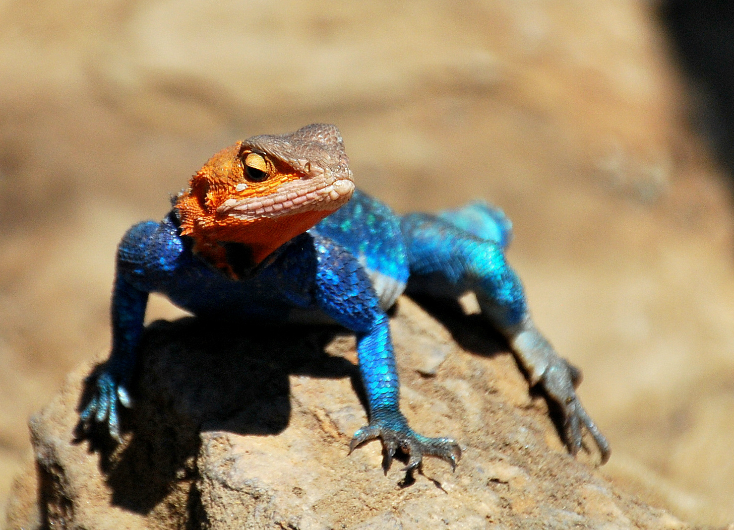 Agama on rock at Lake Nakuru NP, Kenya.